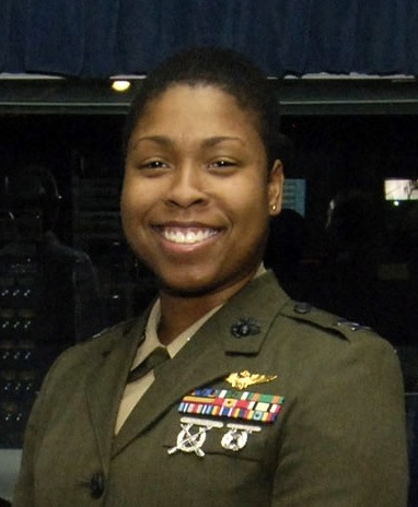 Cropped image of United States Marine Corps officer Vernice Armour - first female African-American naval aviator and combat pilot in the United States military